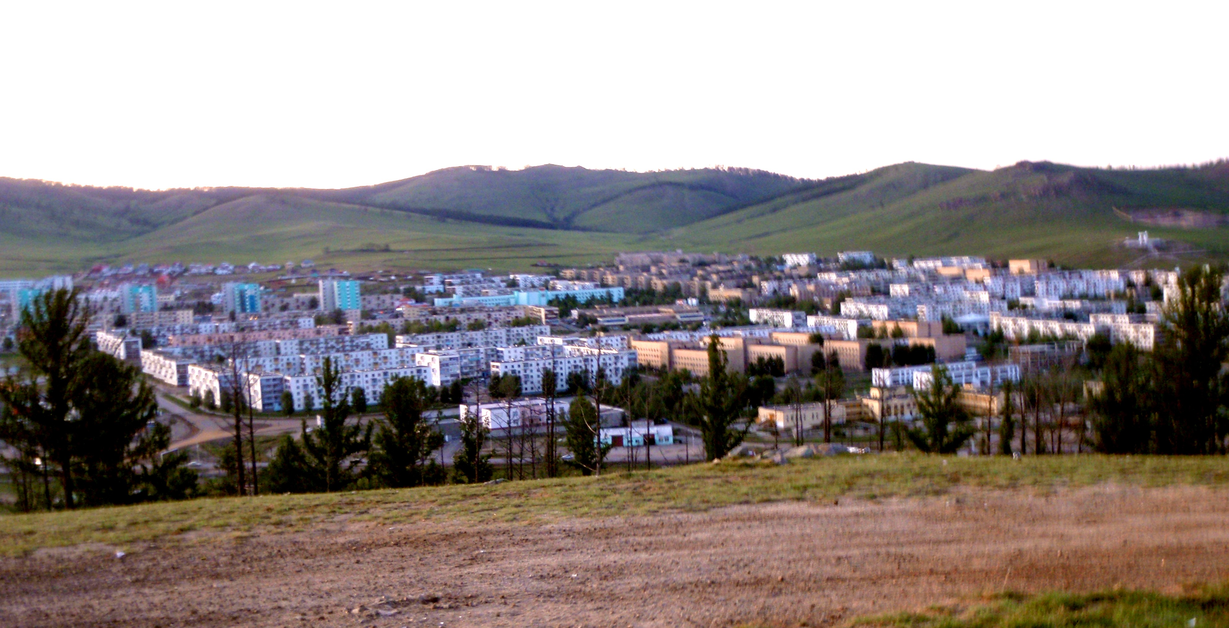 Mongolian city Erdenet